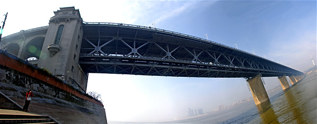 Wuhan Changjiang River Bridge, in Wuhan City, is the first Changjiang river bridge in the city, and is very famous in whole China.